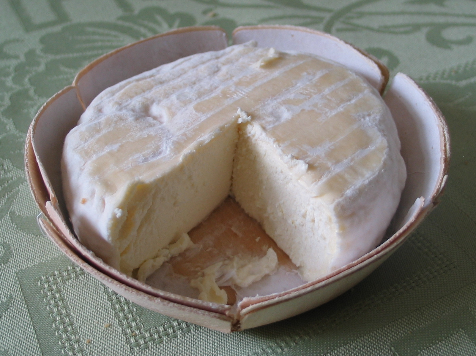 Saint-marcellin (French cheese).